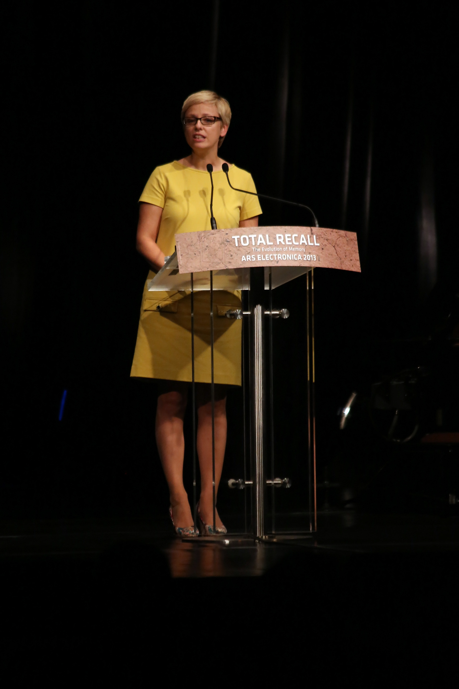 Doris Hummer (member of the state government of Upper Austria), Prix Ars Electronica 2013 at Brucknerhaus, Linz, Upper Austria.